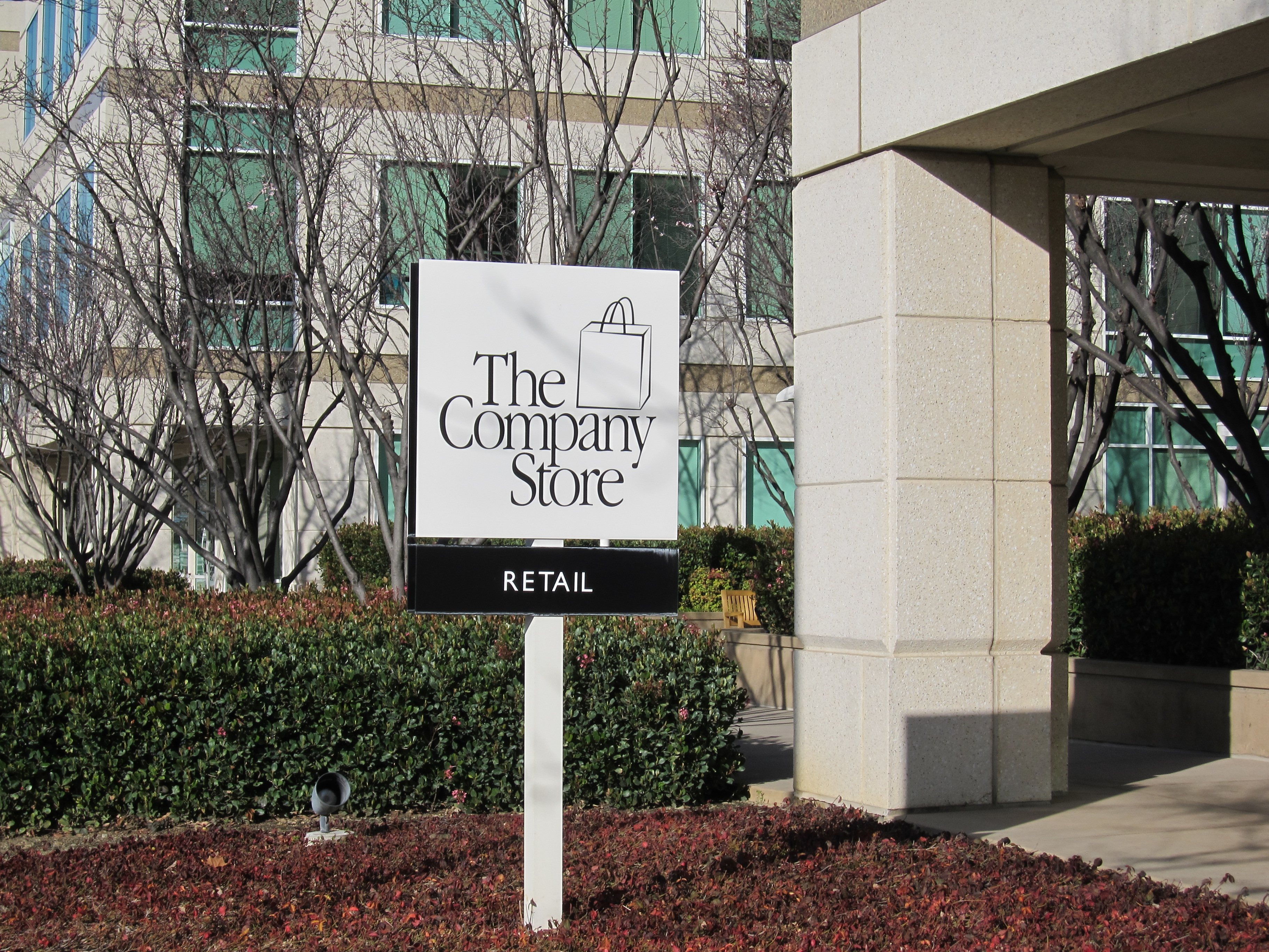 Apple operates on its campus a little-known Apple store frequented by employees, which sells Apple memorabilia not available elsewhere.